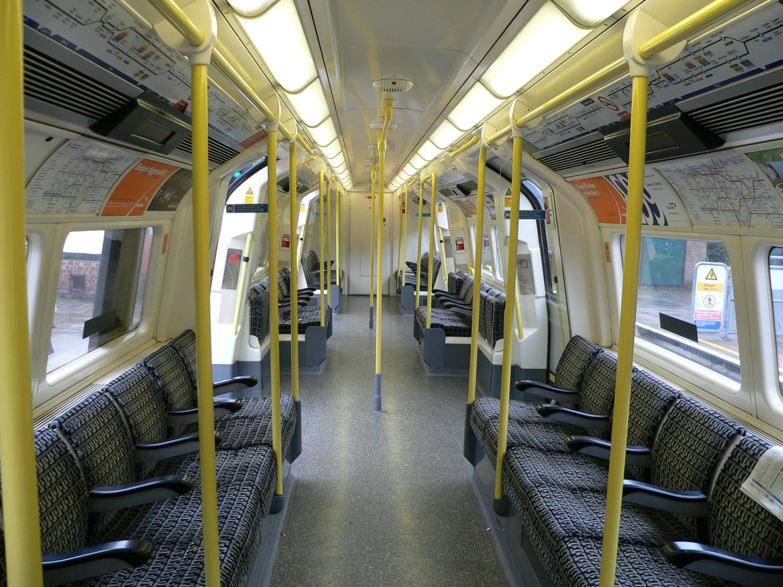 The interior of a London Underground 1995 tube stock Northern Line train at Finchley Central station on 24 October 2005.